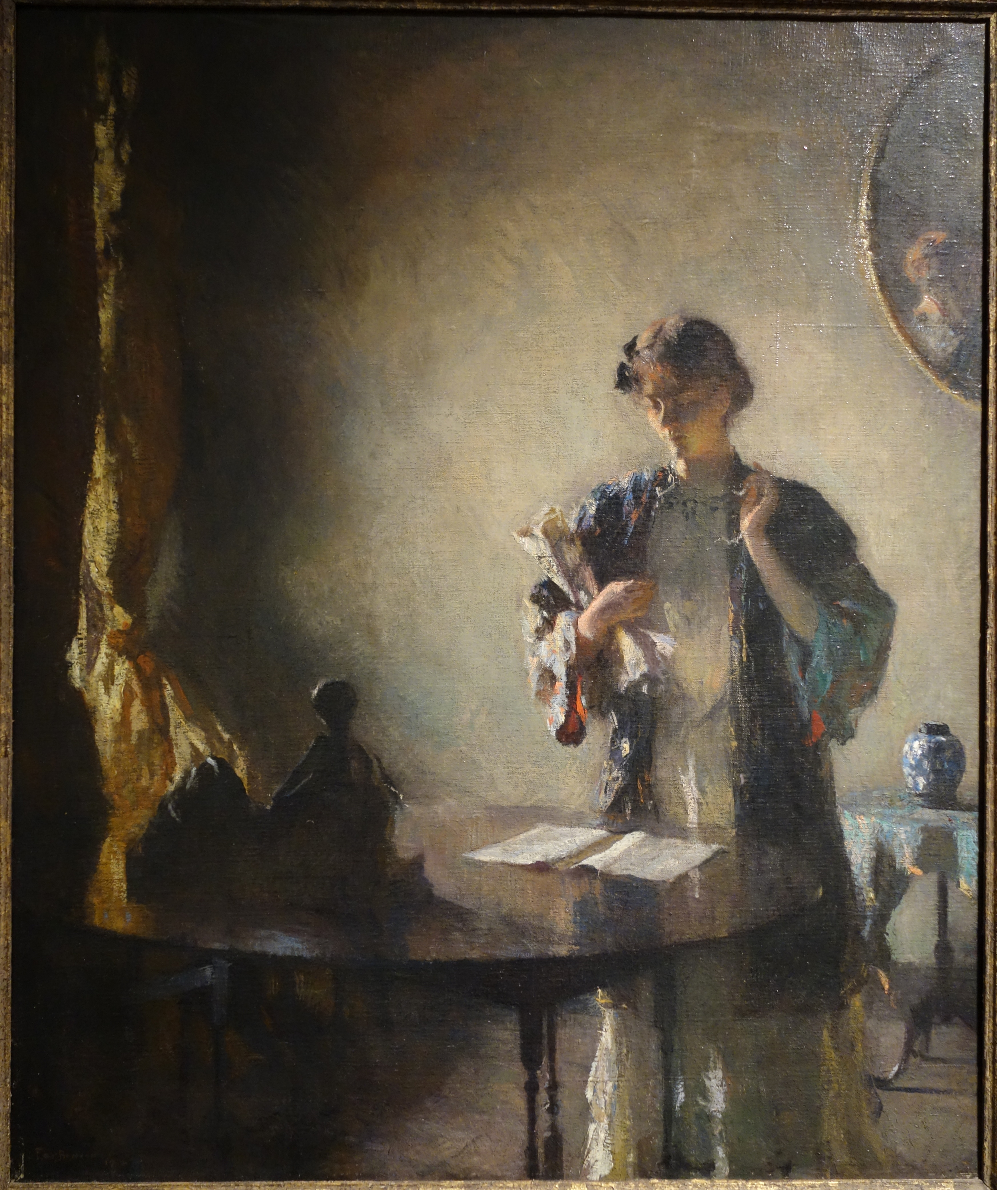 Exhibit in the New Britain Museum of American Art, New Britain, Connecticut, USA. This artwork is in the public domain because it was first published in the United States before 1923. The museum permitted photographs of this exhibit without restriction.